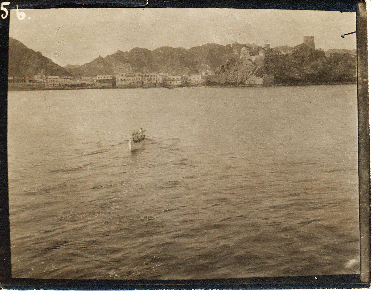 Muscat in former Arabia (today Oman) with the sultan's palace in the middle of the city by the water. Photo by Arne C Wærn, Sweden 1913.